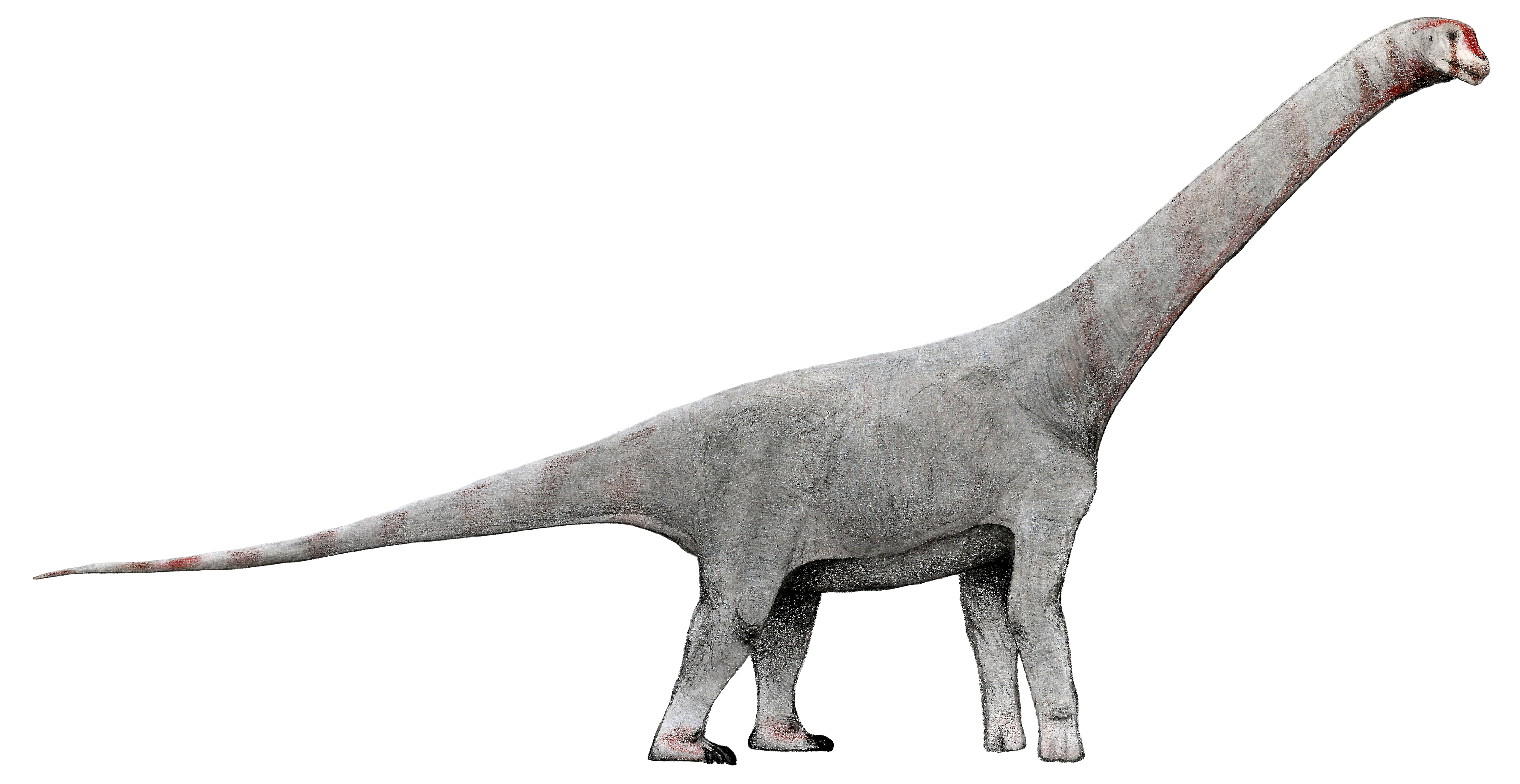 Restauration in life of Chubutisaurus